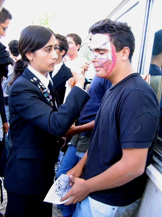 Fatinha's Power | 2005.09.20